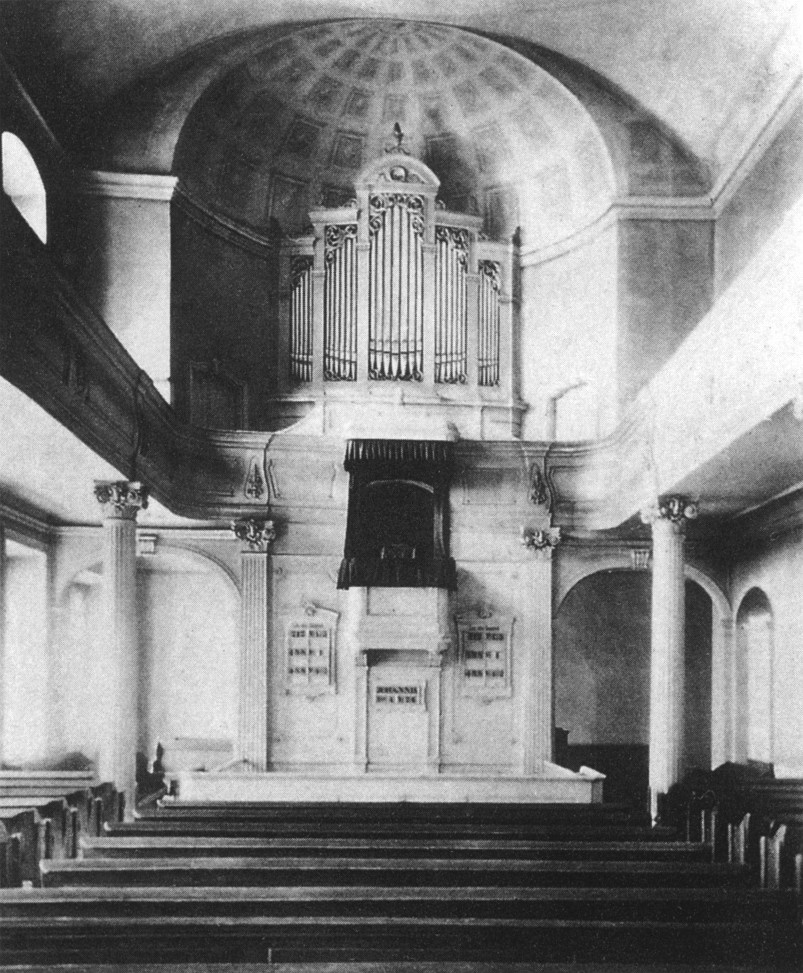 Interior of the Old Reformed Church in Leipzig in the old office building, Thomaskirchhof 21/22, with the organ by Johann Emanuel Schweinefleisch (1766, today in the Church of the Resurrection)